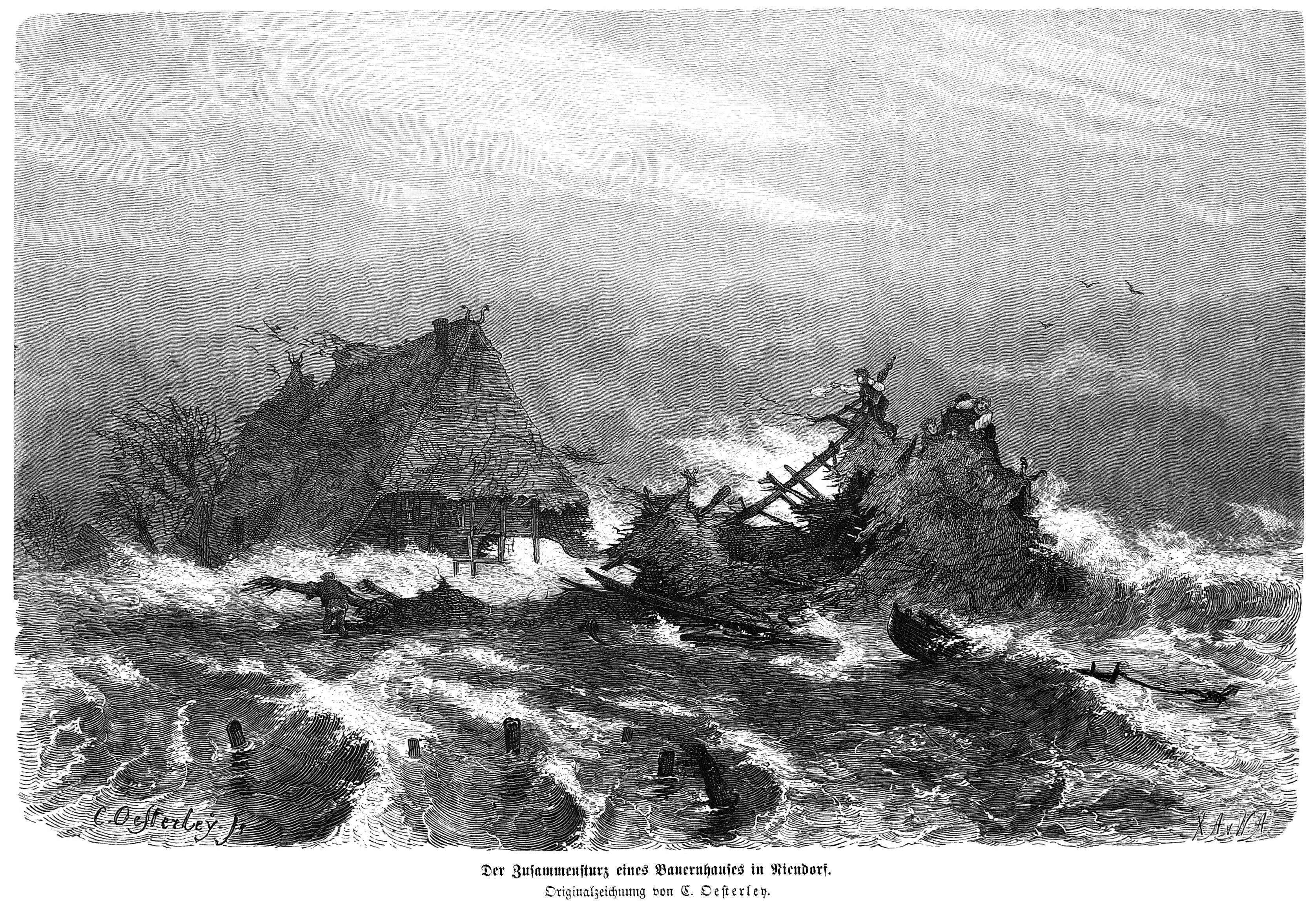 Image from page 859 of book Die Gartenlaube, 1872.